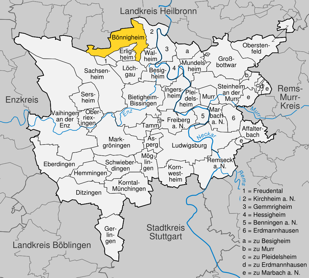 position of Bönnigheim within distict of Ludwigsburg, Baden-Württemberg, Germany